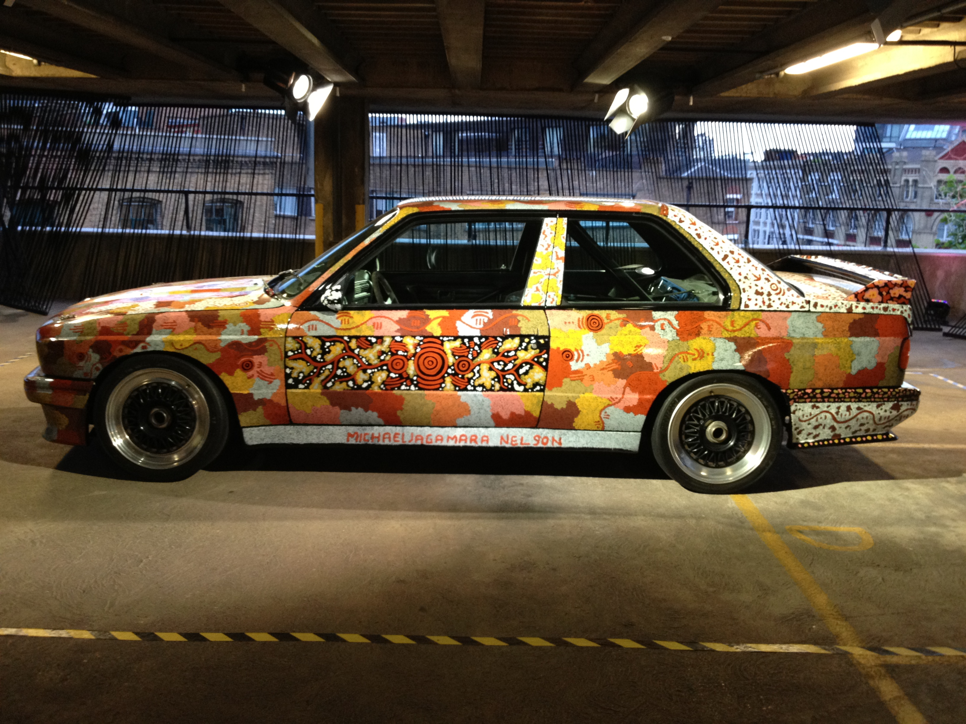 Michael Nelson Jagamarra BMW Art Car. Taken in Shoreditch, London at the RSA exhibition of the BMW Art Cars, part of the London 2012 Festival